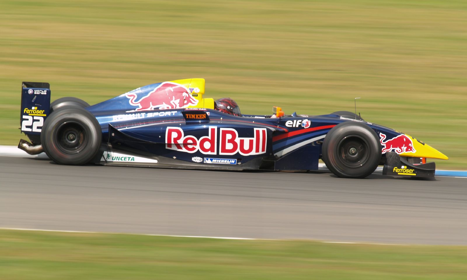 Davide Valsecchi driving for Epsilon Euskadi in the 2007 World Series by Renault season at Donington Park.